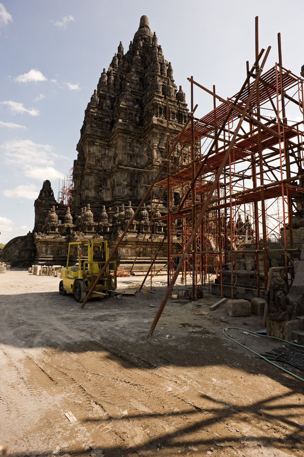 Reconstruction of temples at Prambanan, Java/Indonesia